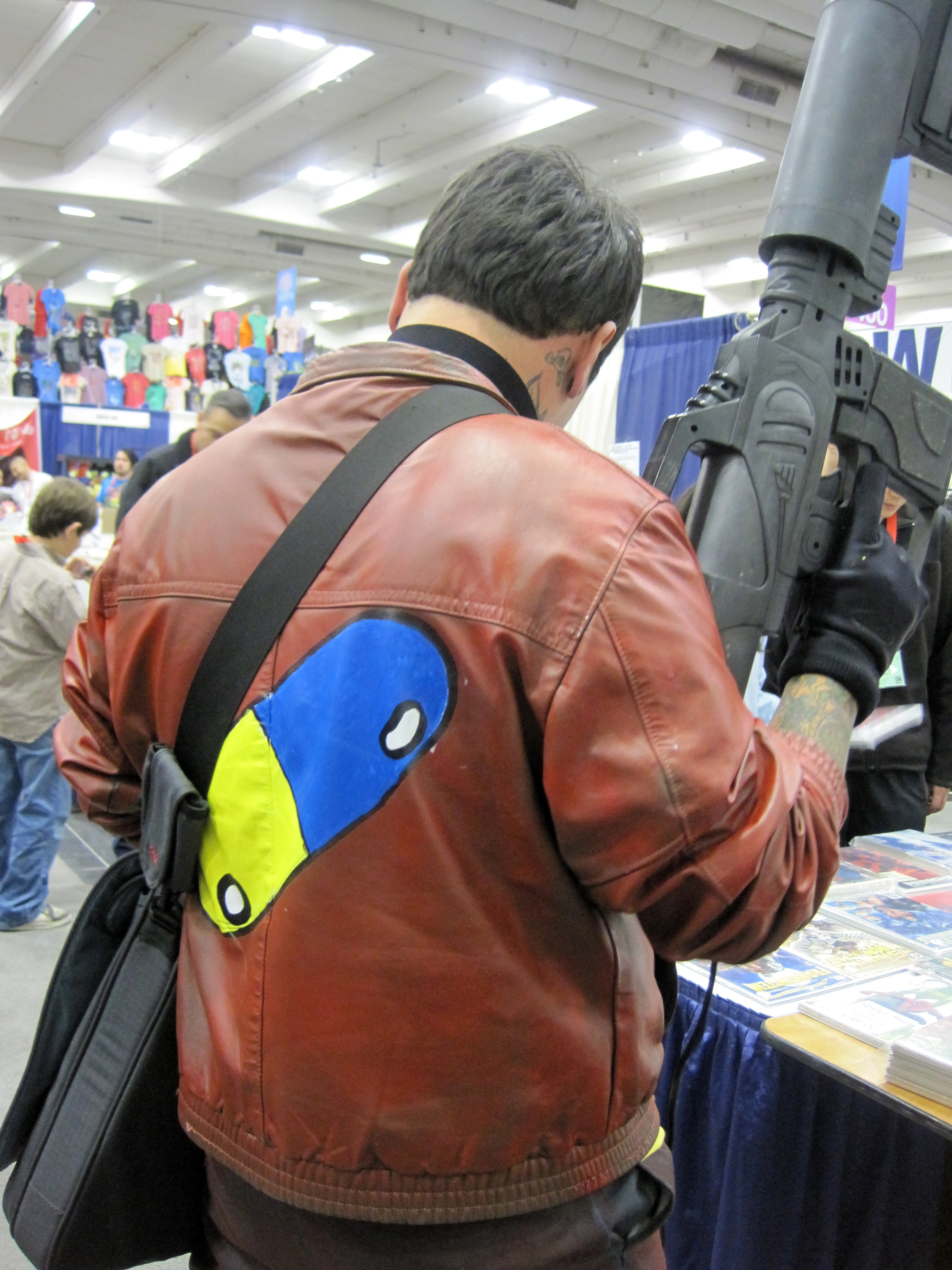 A cosplayer portraying Kaneda from Akira at WonderCon 2010.